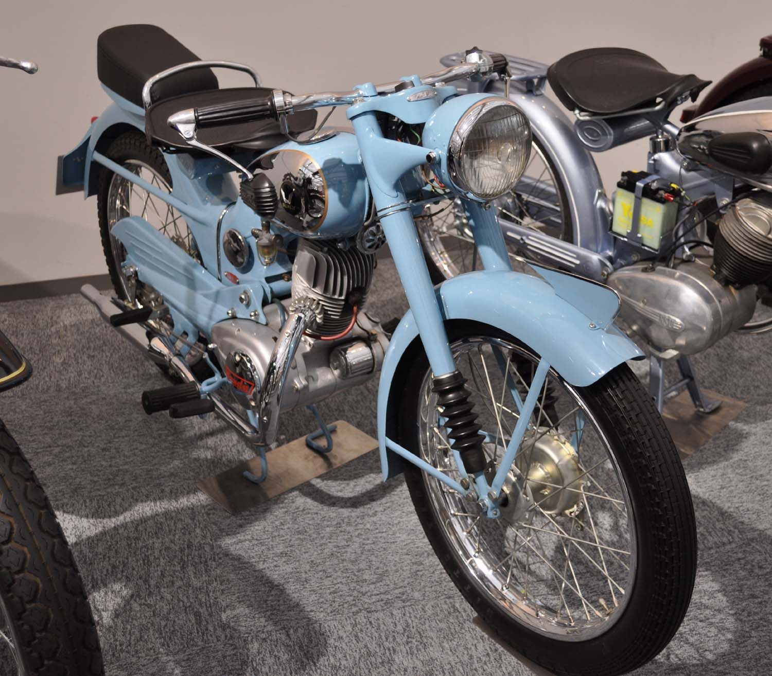 Honda Benly J (1953)